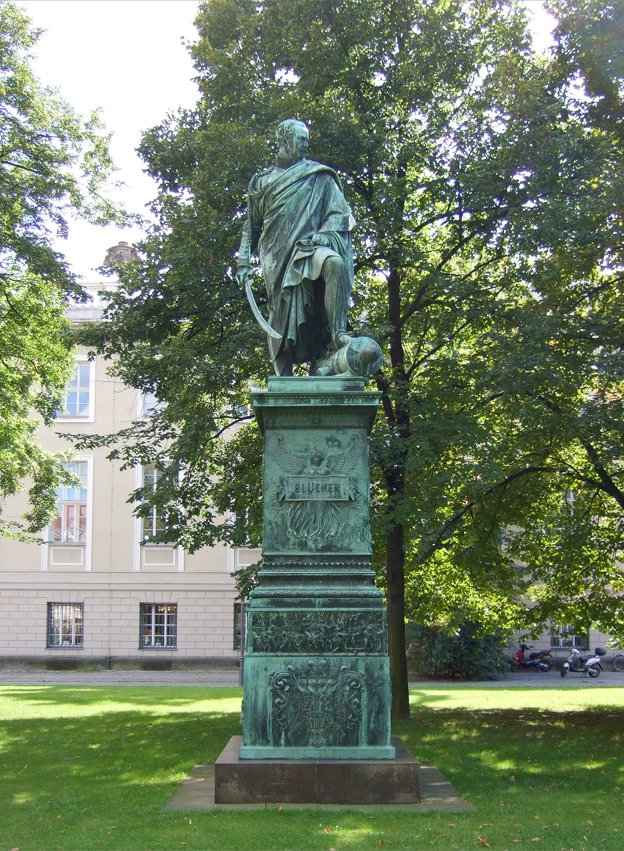 The bronze memorial to Generalfeldmarschall Gebhard Leberecht von Blücher in Berlin, sculpted by Christian Daniel Rauch